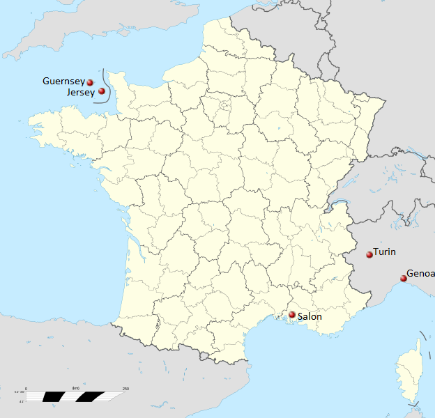 Operation Haddock - June 1940: map showing the location of RAF bases in the Channel Islands and at Salon, and the target cities of Turin and Genoa